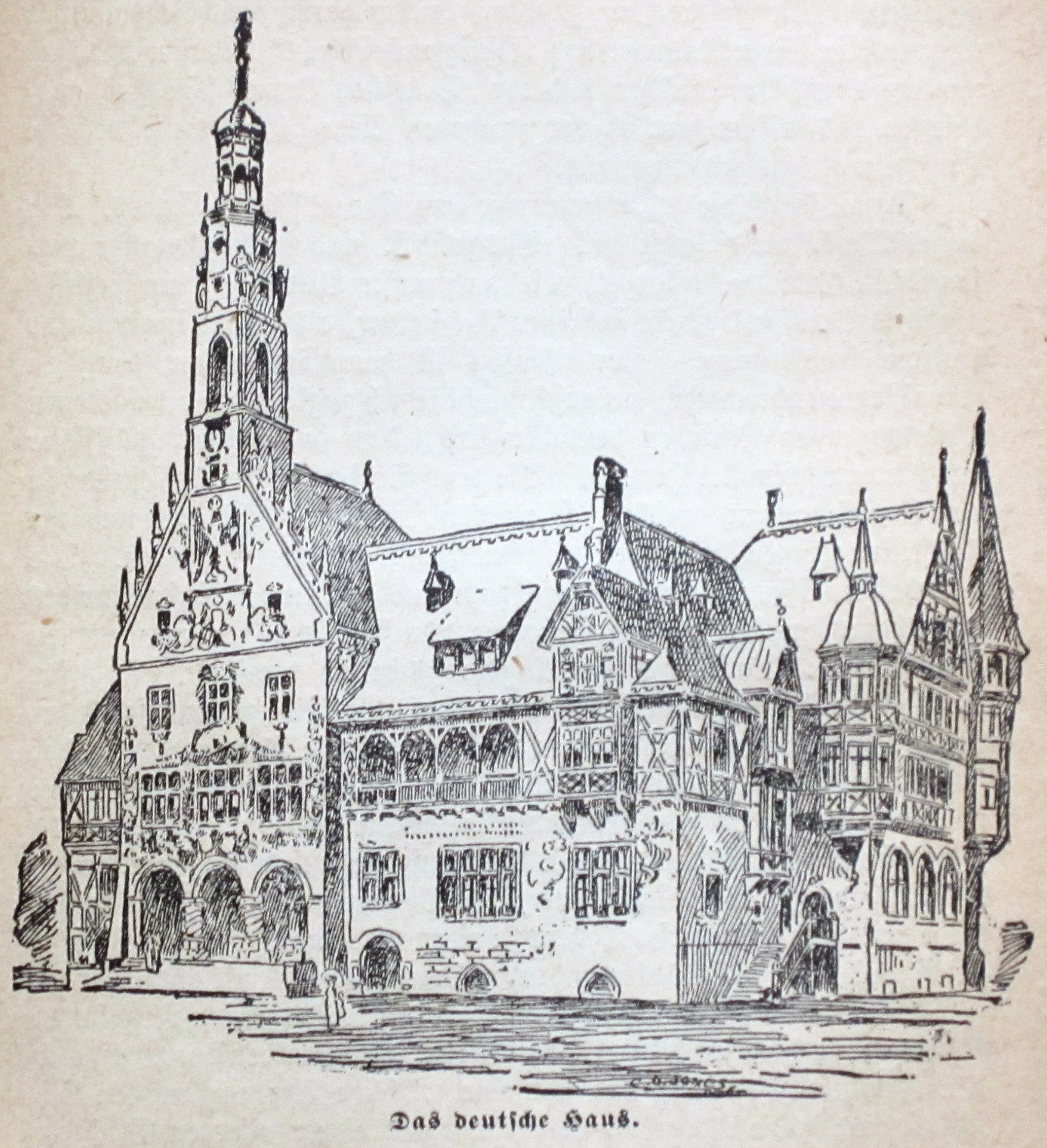 The German House on World’s Columbian Exposition